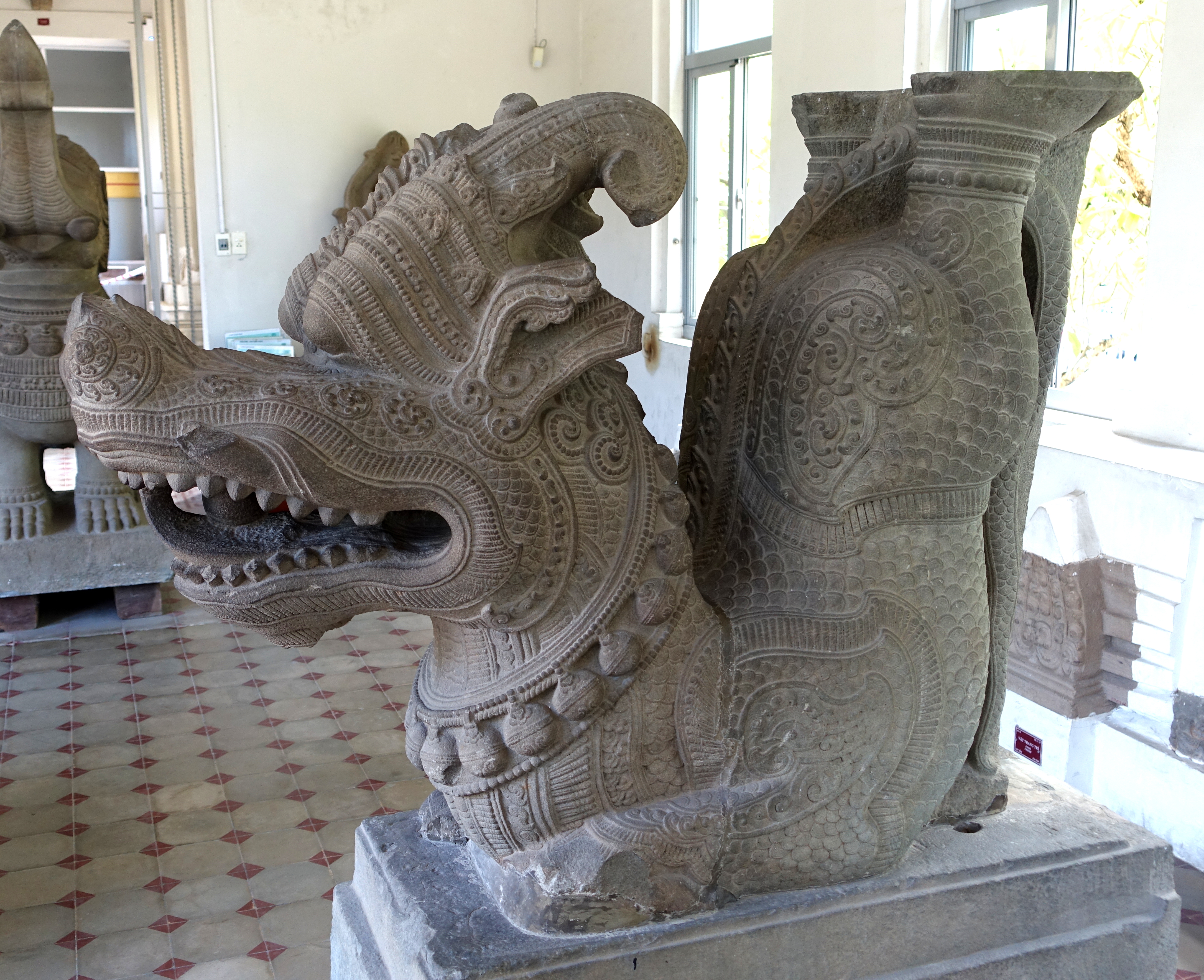 Cham sculpture at the Museum of Cham Sculpture, Da Nang, Vietnam. This artwork is in the public domain because the artist died more than 70 years ago.